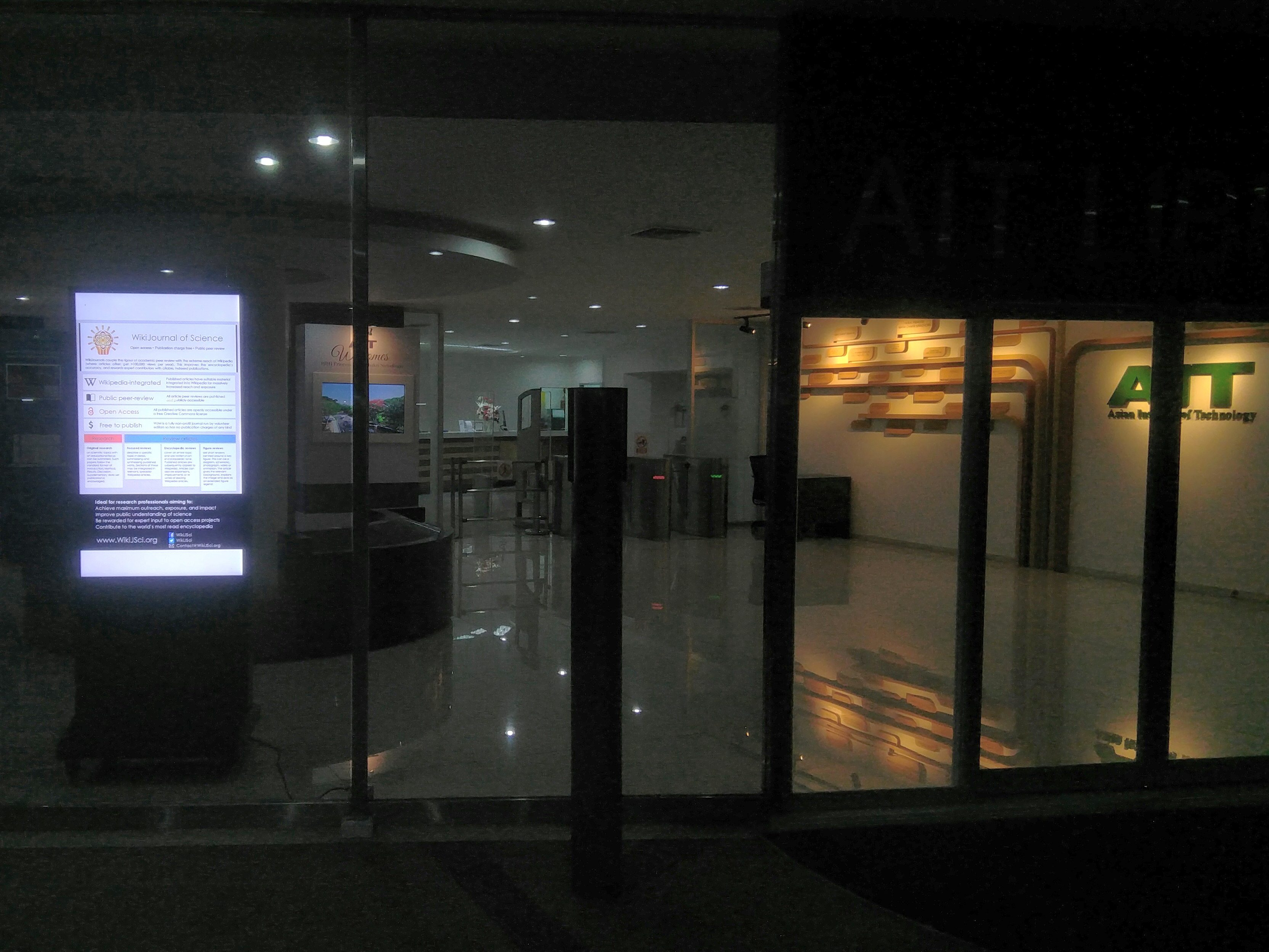 AIT Library Displays WikiJournal of Science